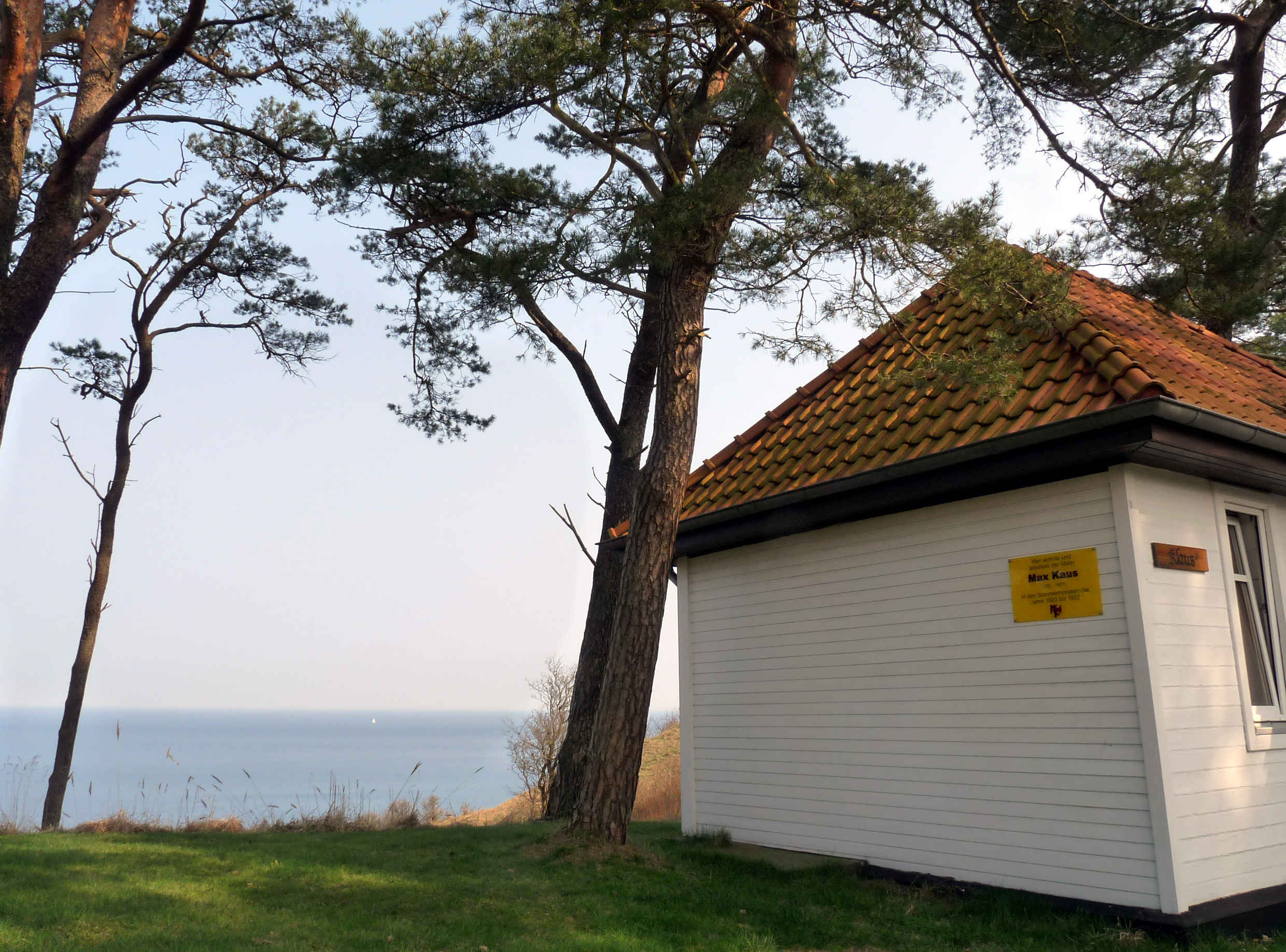 Summer house of German painter Max Kaus on Hiddensee island